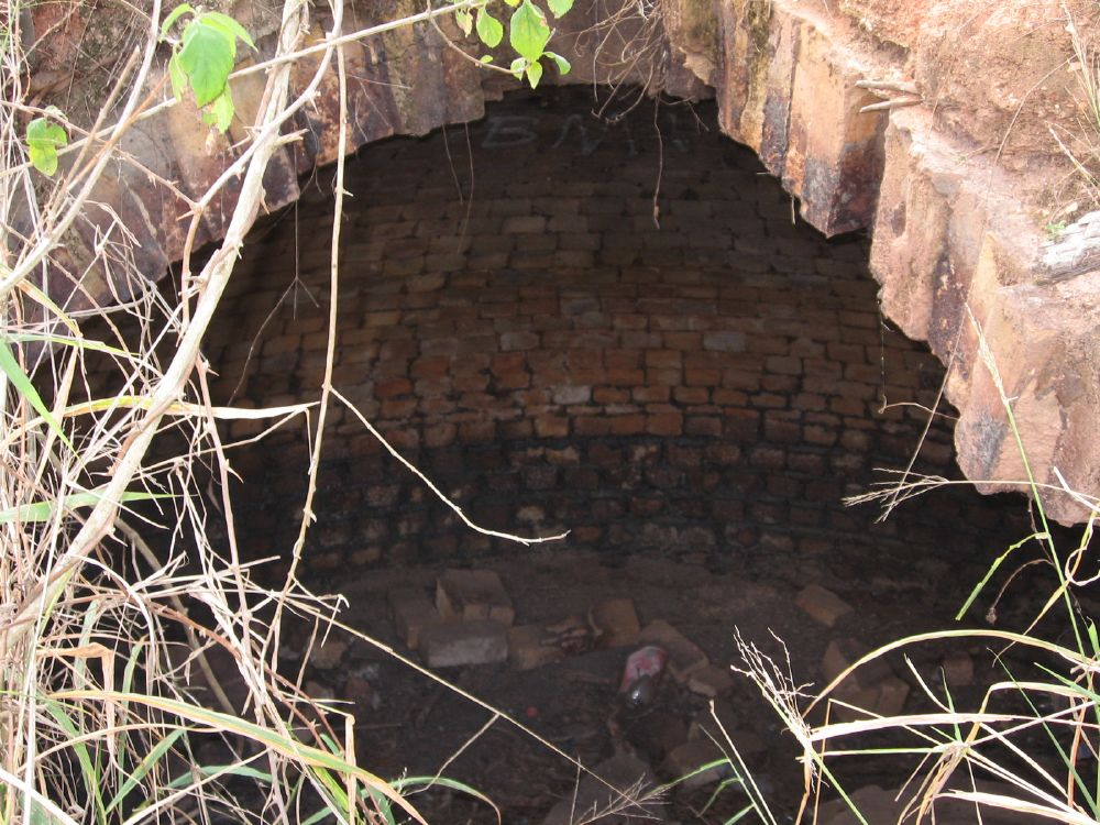 Klondyke Coke Ovens (2007) with brick rear wall